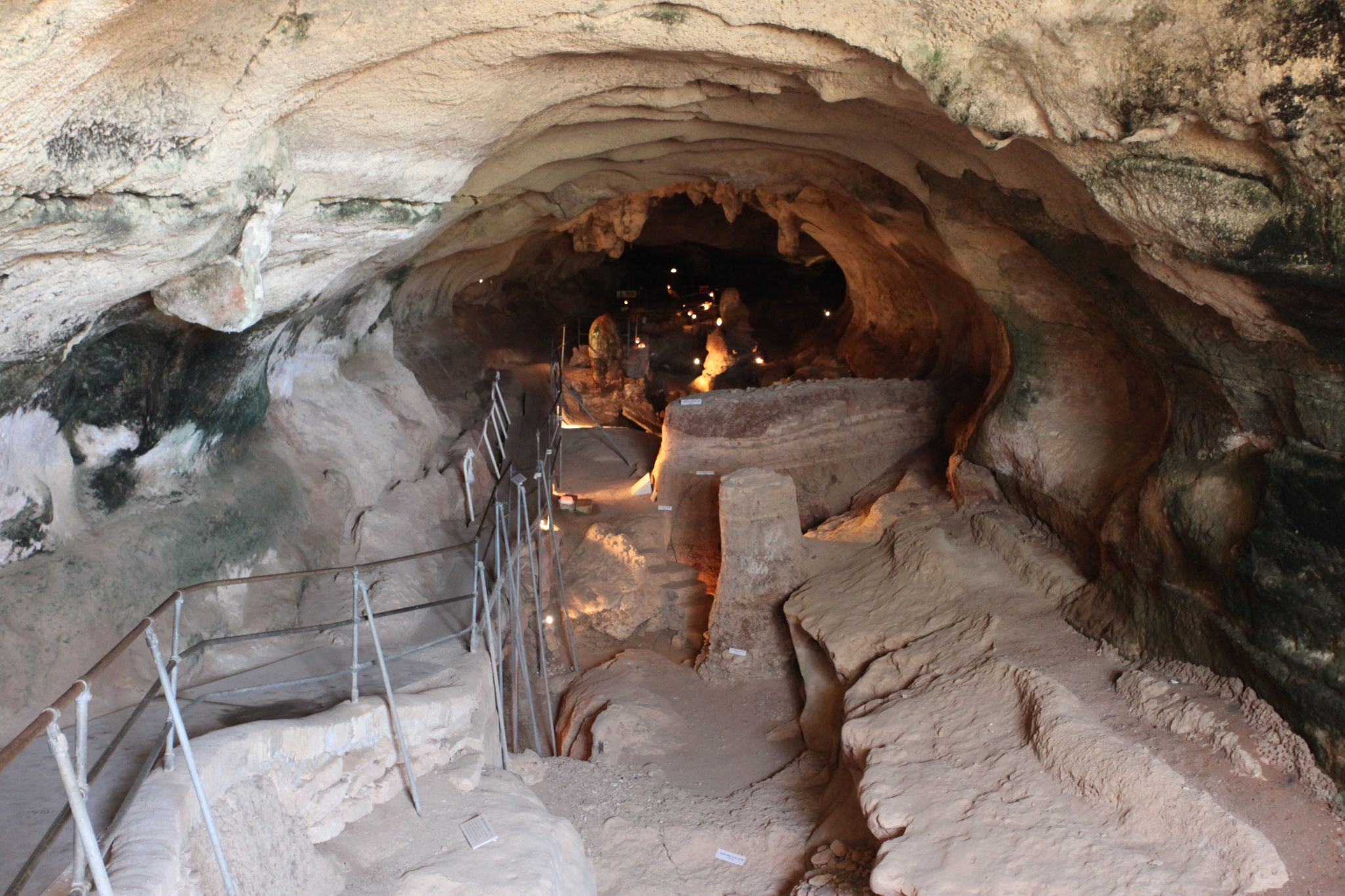 Għar Dalam cave in Birżebbuġa